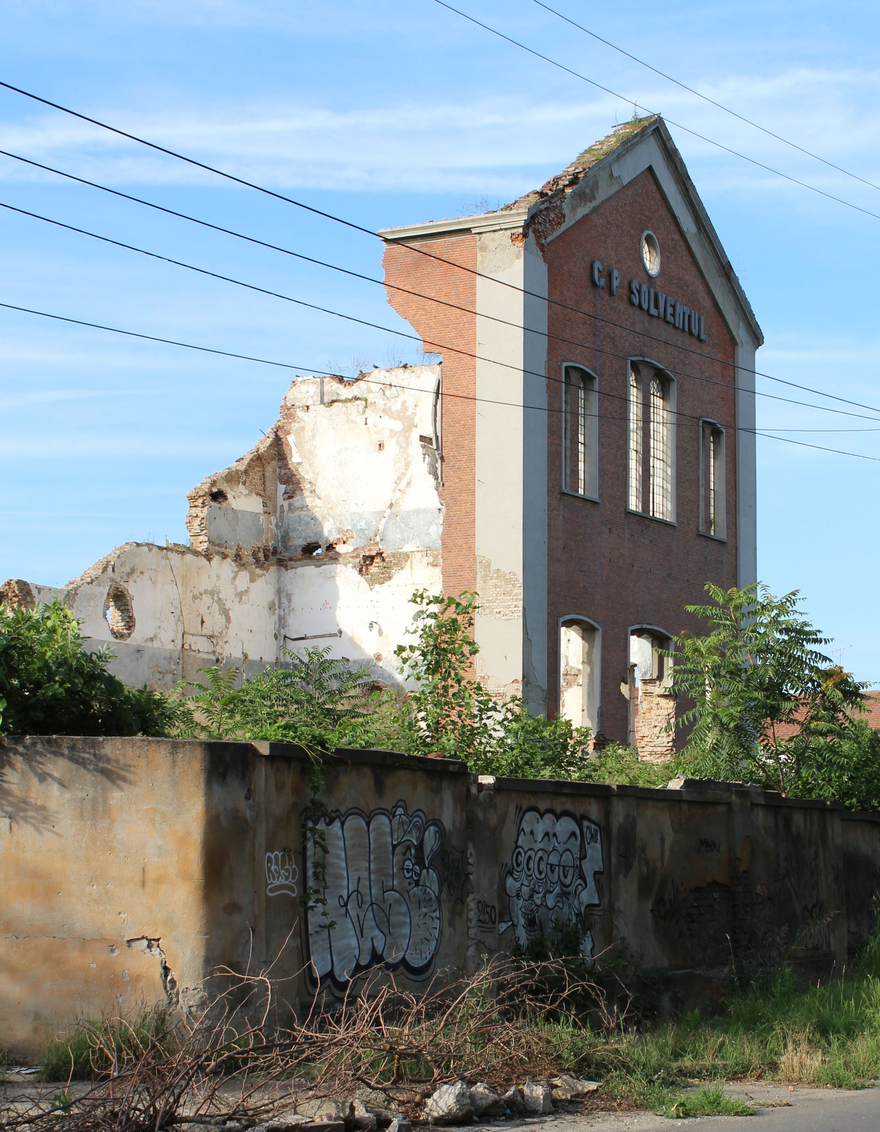 Solventul Timisoara, 2016